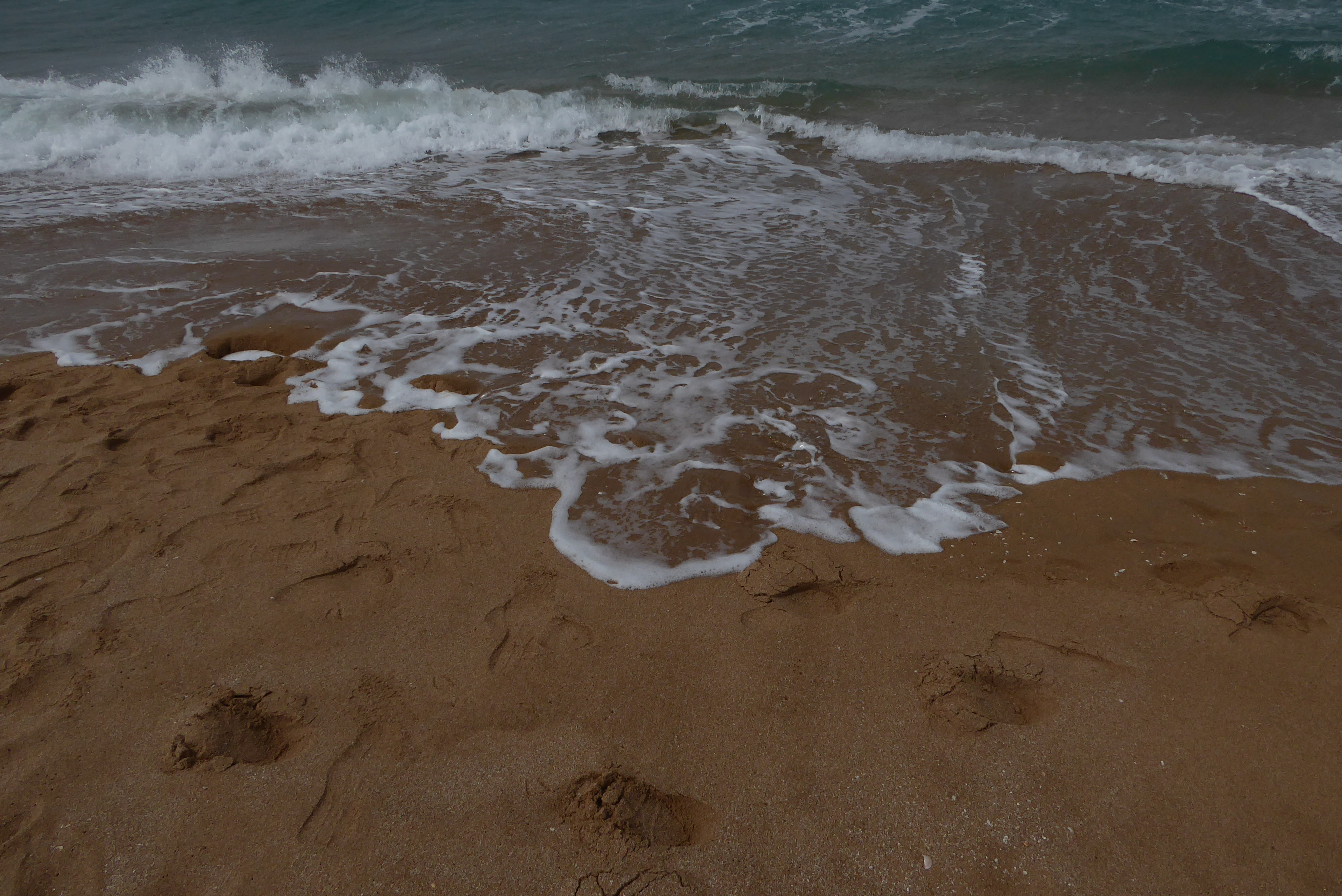 Beaches of Israel